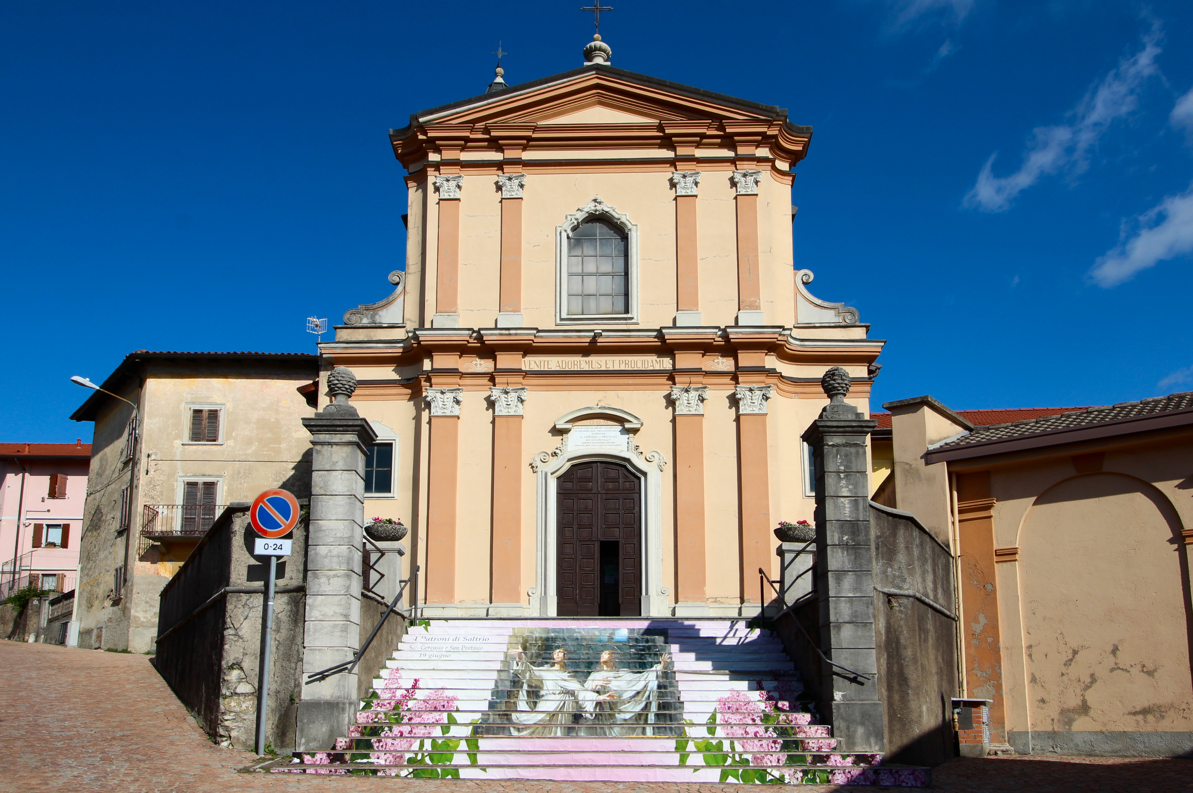 Church Santi Gervaso e Protaso, Saltrio, Province of Varese, Lombardy, Italy